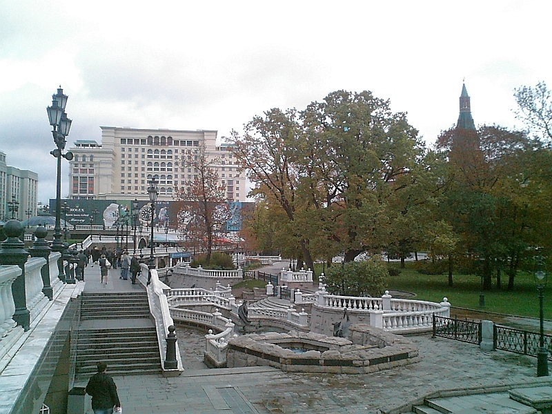 Manege Place Moscow Russia